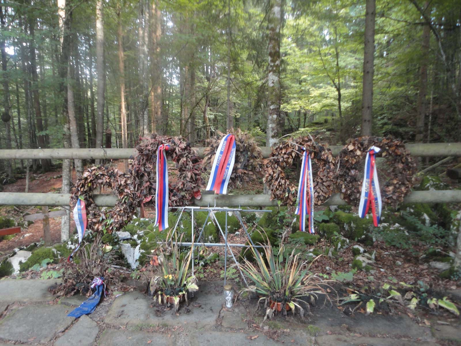 Wreaths near the cave Jama pod Krenom in Kočevski Rog (Slovenia) at the site of mass murder of Slovenian domobrans, Ustasha and Chetniks by Jugoslav partisans after WWII (May and June 1945). One wreath was given by France Kozina, who saved himself out of a cave in Kočevski Rog in 1945.